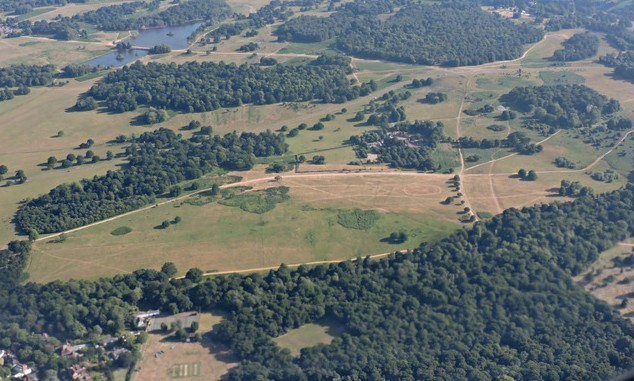 Aerial view of part of Richmond Park